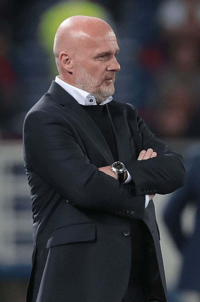 This image depicts Michael Bilek the head coach of Kazakhstan National football team and FC Astana